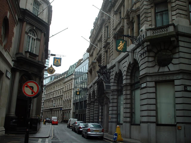 Lombard Street, London EC3. A quiet Lombard Street on a February Sunday afternoon. Looking south-east.